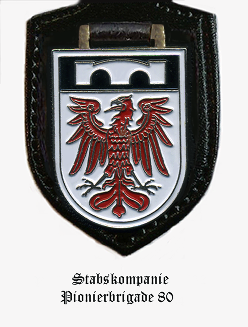 Internal coat of arms Stabskompanie Pionierbrigade 80 (StKp PiBrig 80) of the Bundeswehr (Armed Forces of the Federal Republic of Germany). → Remarks on naming and categorization scheme